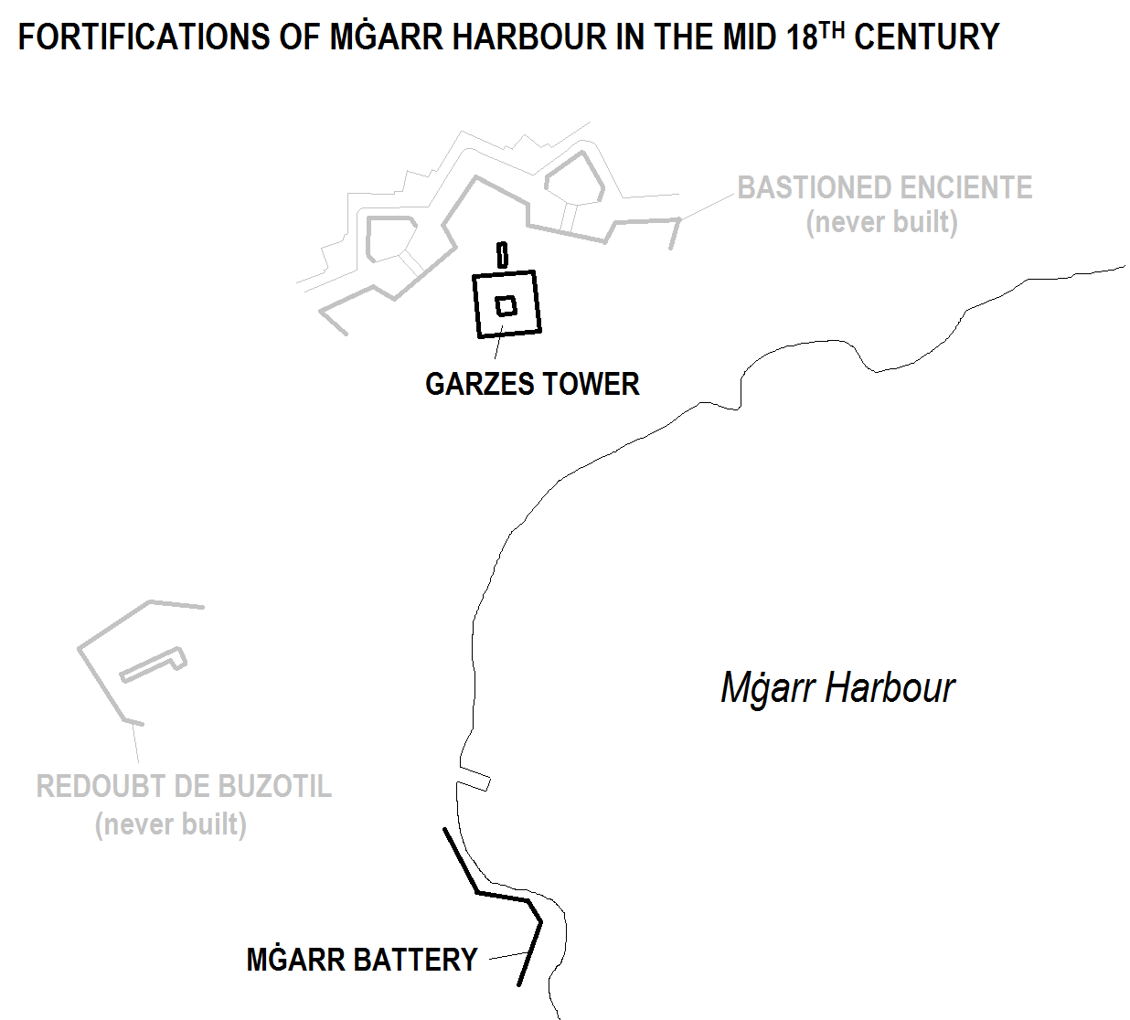 Map of the existing (black) and proposed (grey) fortifications in Mġarr Harbour, Gozo, Malta, in the mid-18th century